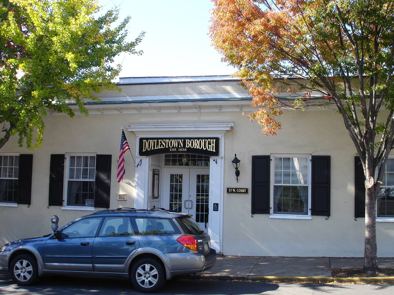 I took this photo 10/8/06